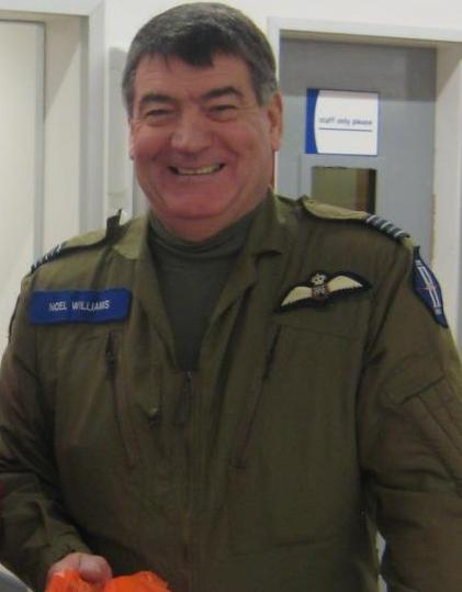 Councillor Noel Williams